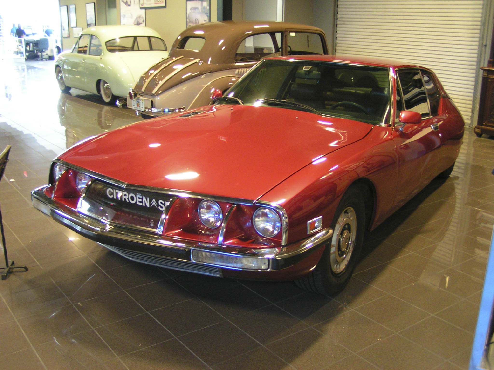 An amazing car with a Maserati 2.7L V6, front wheel drive, hydra-pneumatic suspension, and disc brakes.